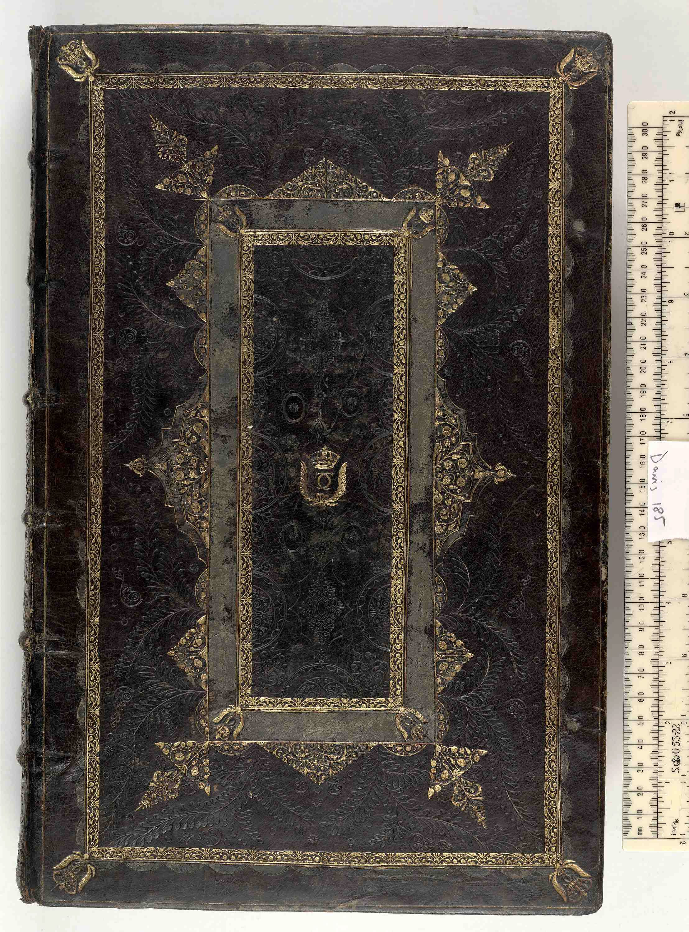 Style: Panel design|Semi sombre (blind on black with a few gold motifs; Caption: Upper cover; Colour: Black; Edge: Painting under gilt